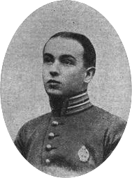 Bobrikov, Mikhail Georgovich, One-year volunteer